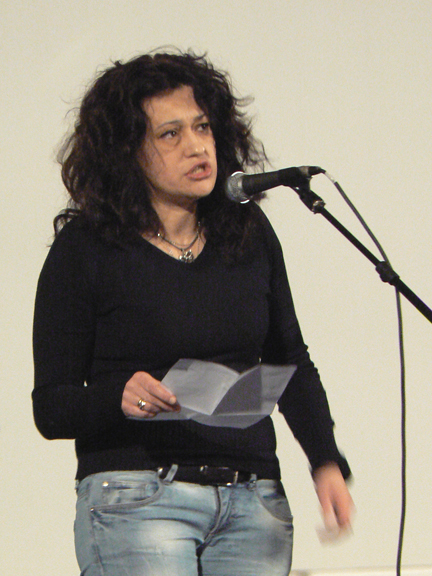 Bulgarian poet Kristin Dimitrova (on a charity literary reading for Haiti people, House of Cinema, Sofia, Bulgaria)